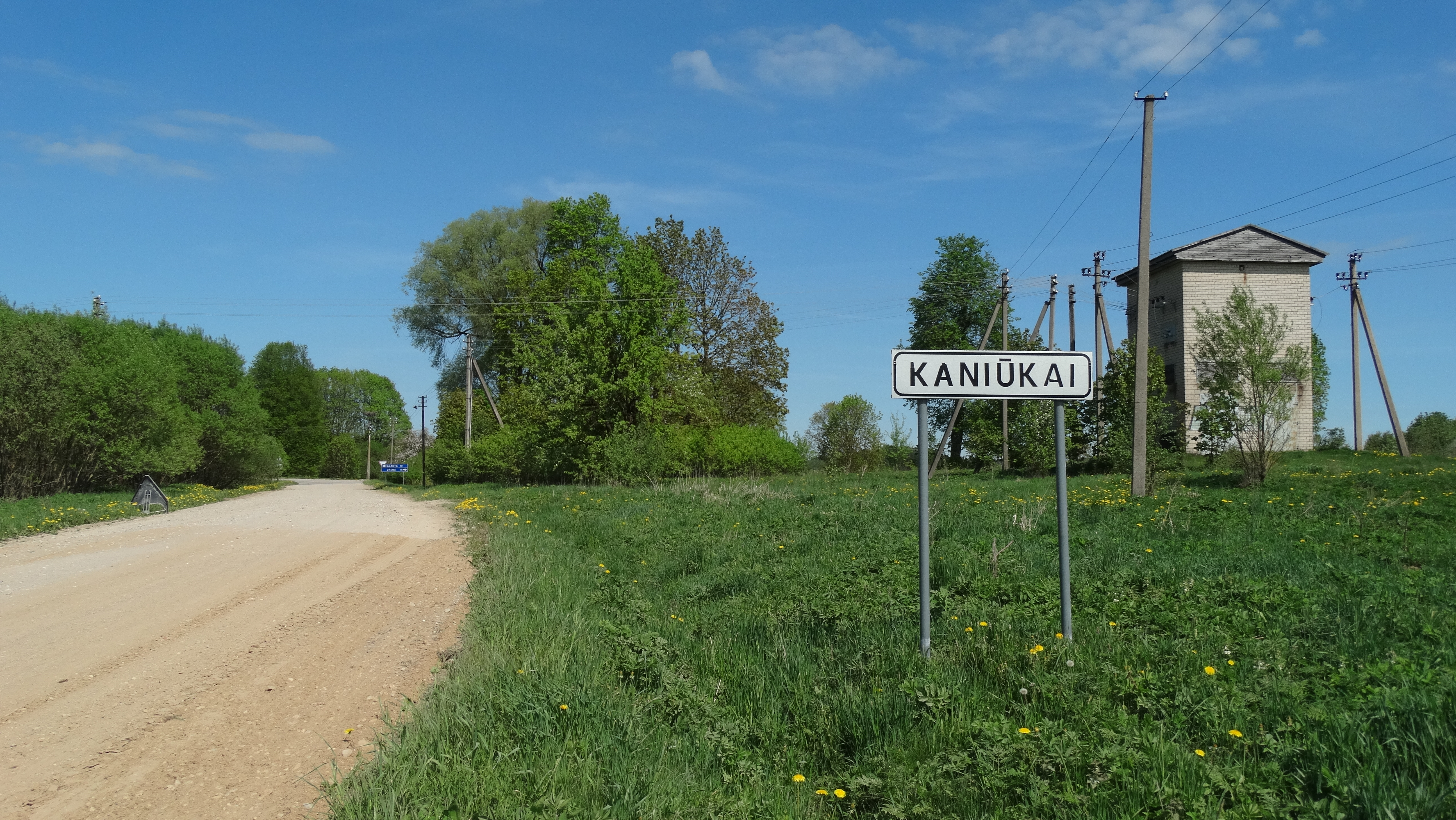 Kaniūkai, Molėtai District, Lithuania